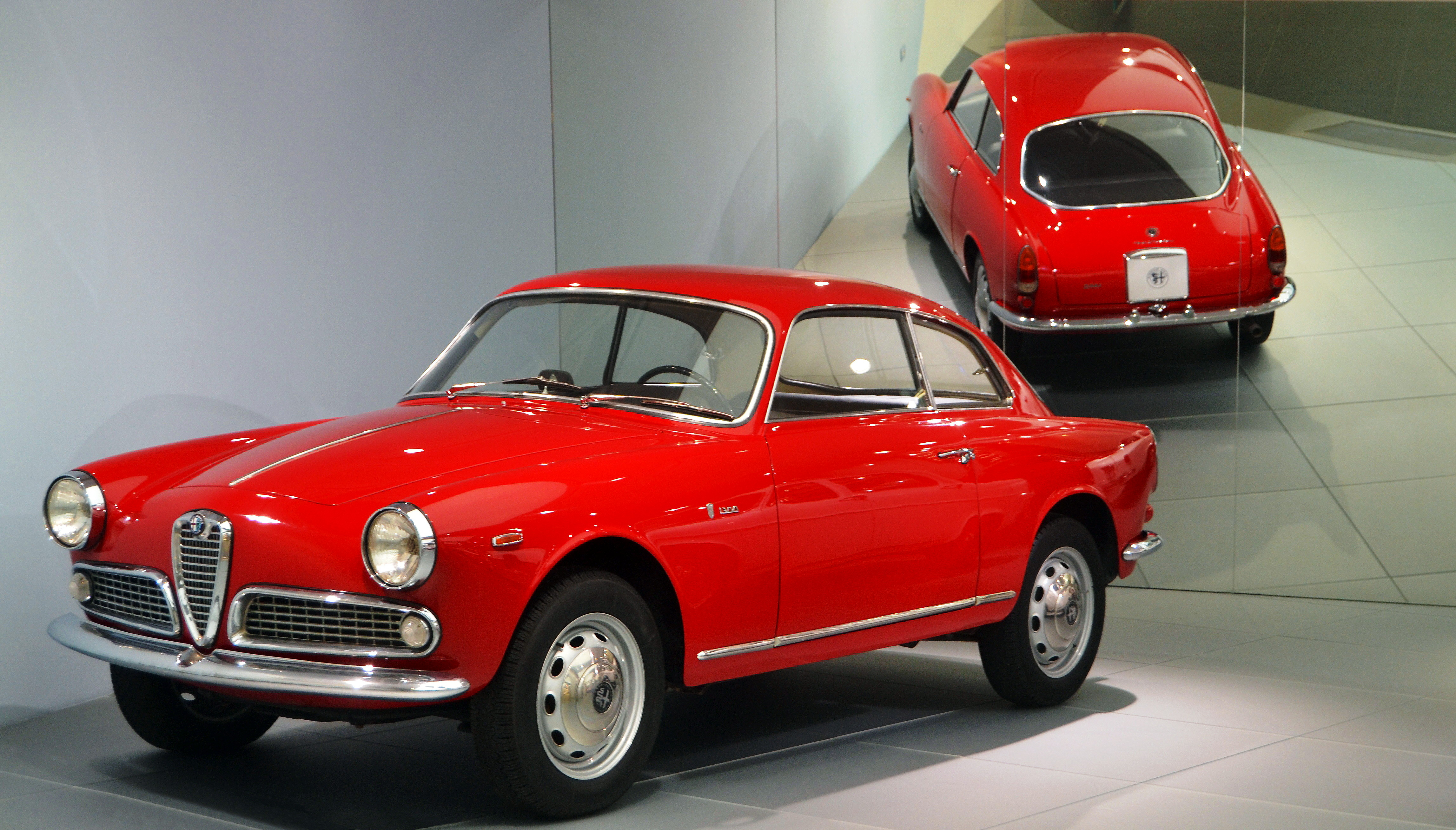 Alfa Romeo Giulietta Sprint 1300 (1962), shown at Museo Storico Alfa Romeo in Arese, Milano, Italy. Picture taken 2017-08-11, modifyed 2019-07-08.